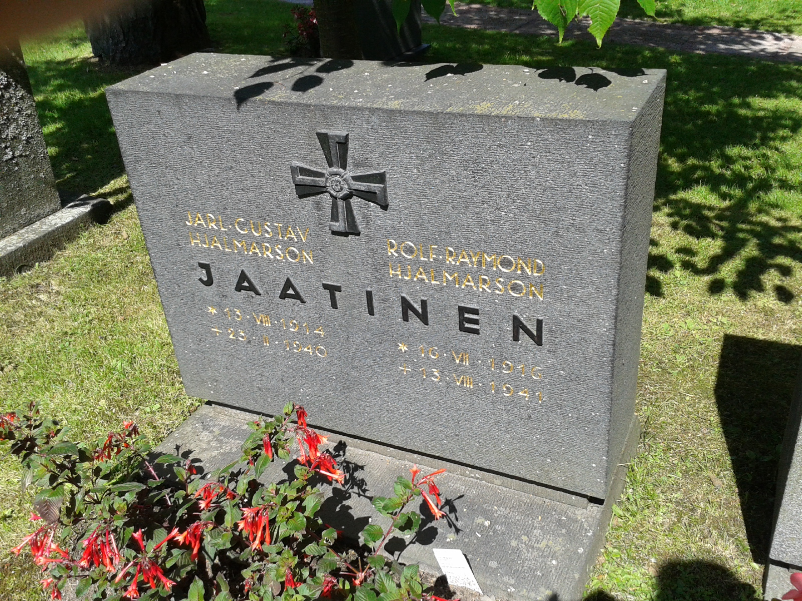 Headstone of Jarl Jaatinen and his brother Rolf Jaatinen Location: Kulosaaren hautausmaa, Helsinki